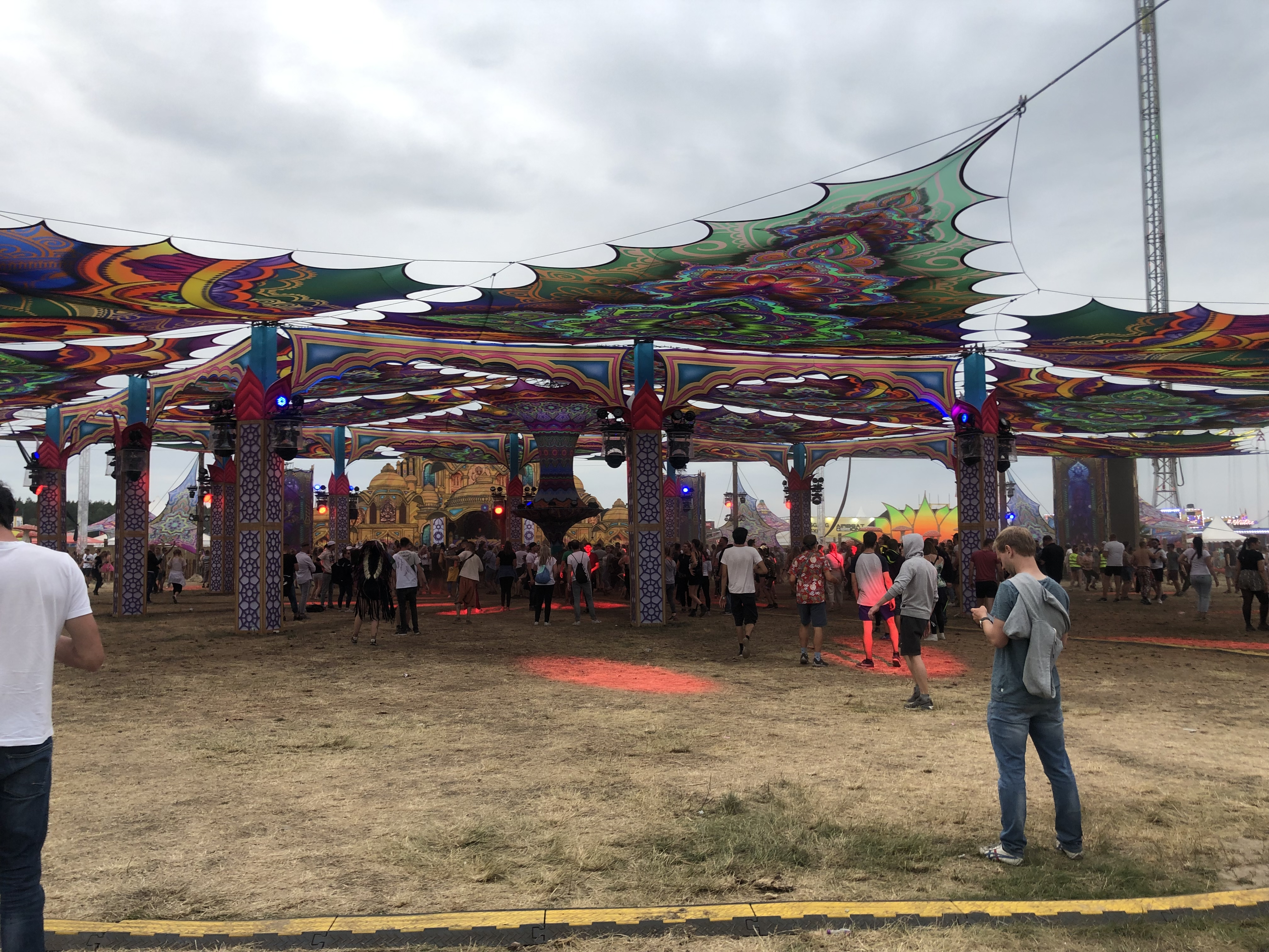 Second Stage of Airbeat One Festival 2019 in Neustadt-Glewe, Germany.